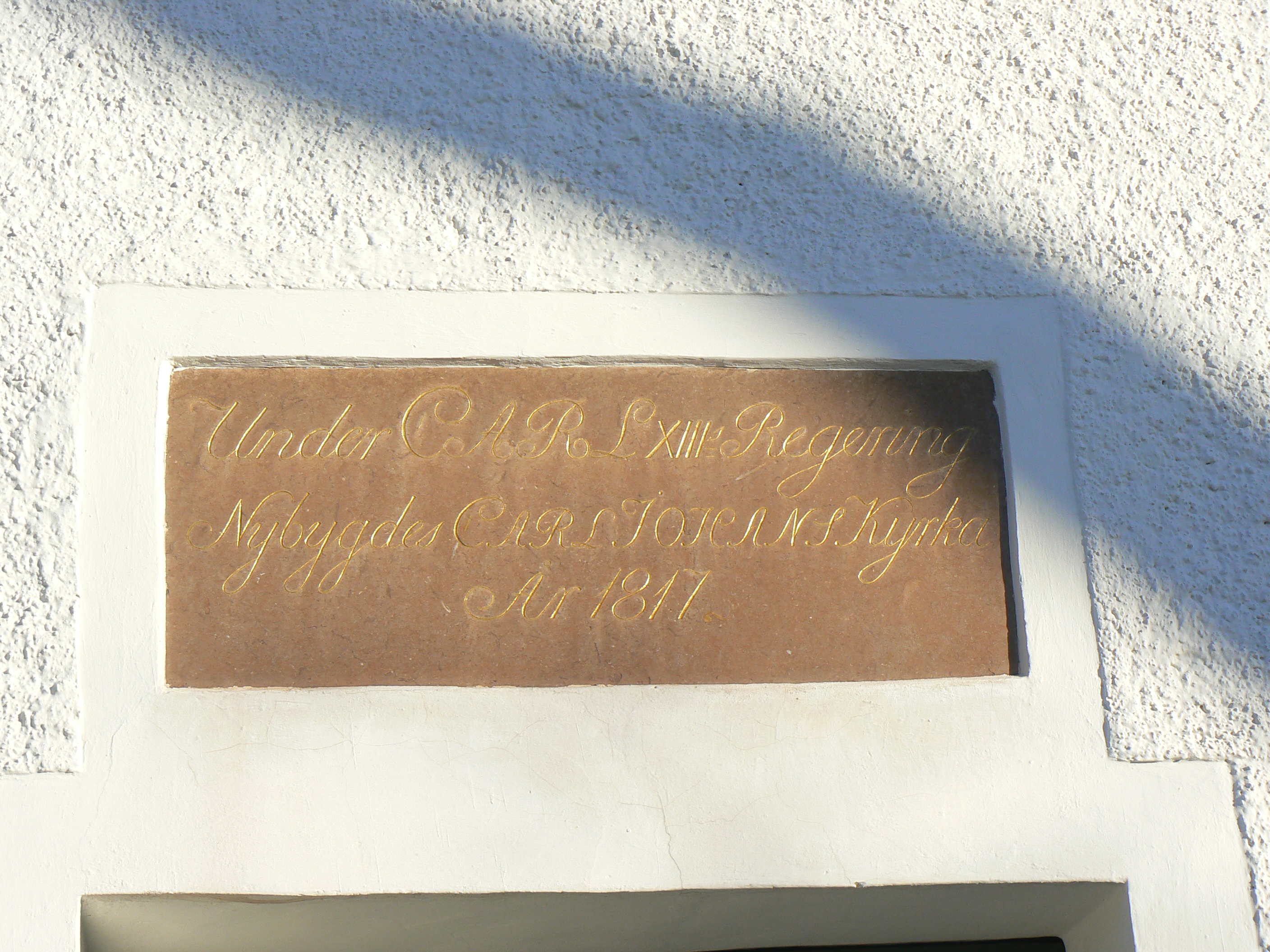 Inscription above the tower entrence of Törnevalla church in Östergötland, Sweden.